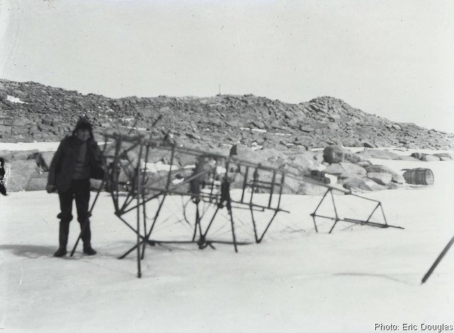 Douglas Mawson's air-tractor sledge, abandoned on the ice in 1913 and photographed in 1931.